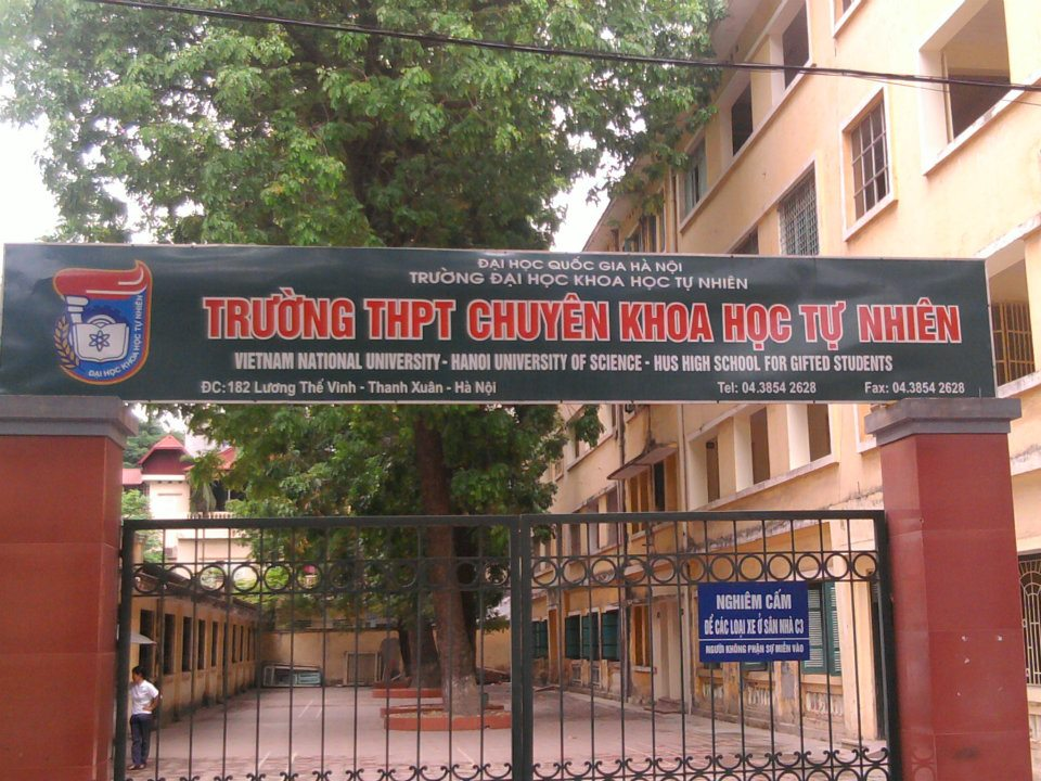 The C3 building contains offices,laboratories and computer room of HUS High School for Gifted Students